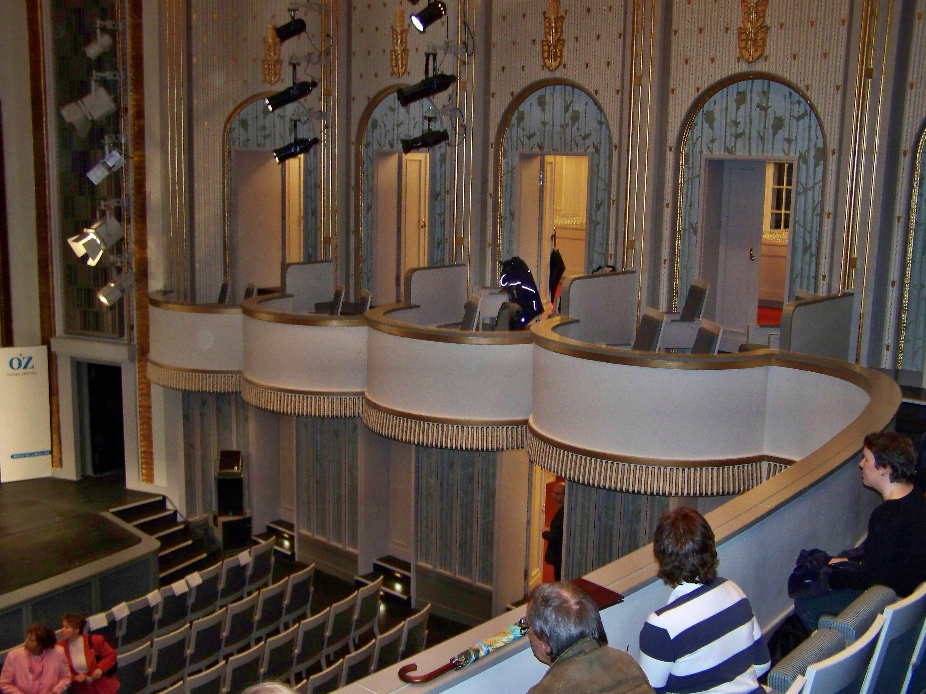 Stralsund. Im Theater